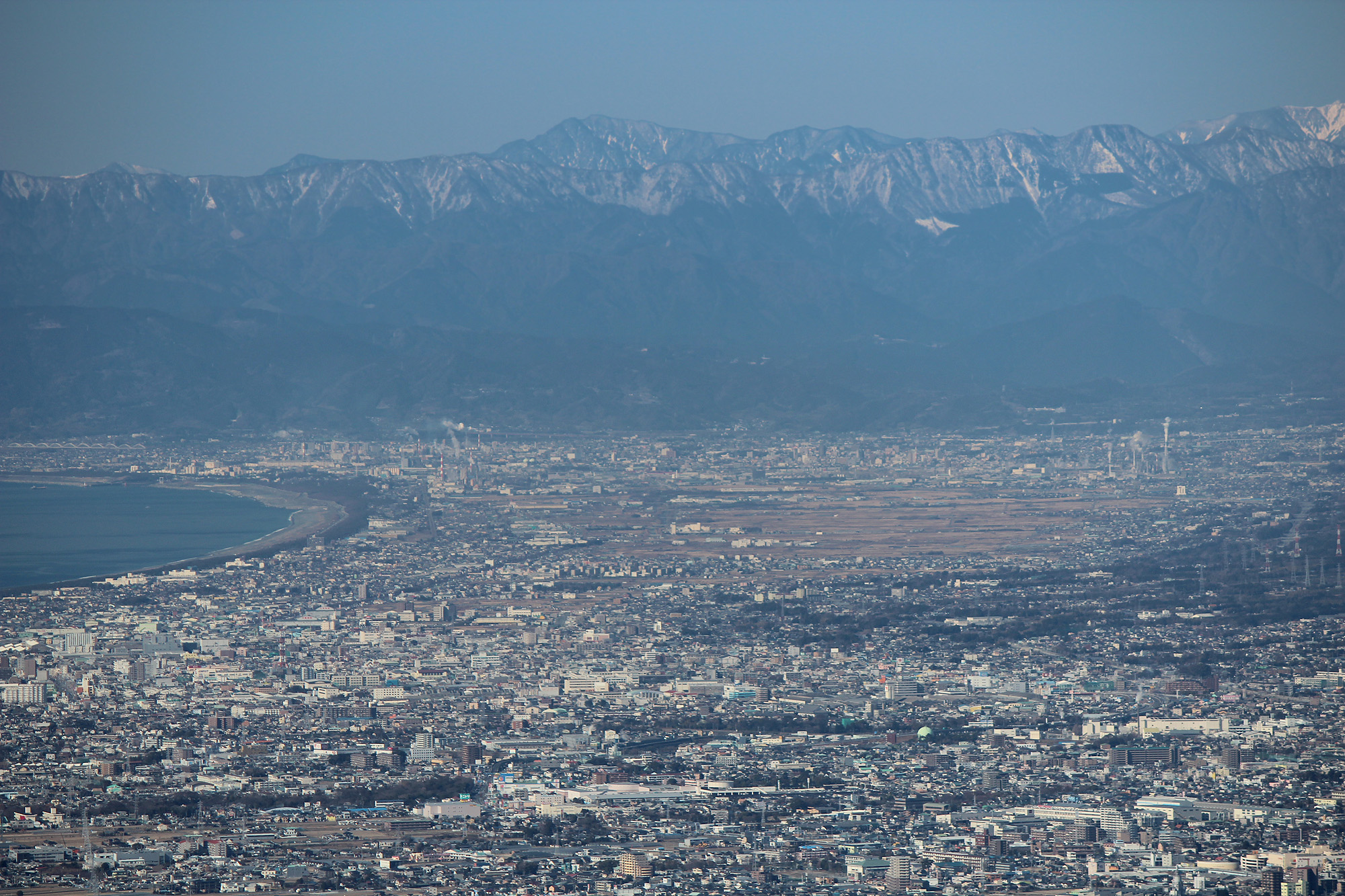 The ruin of Ukishimanuma (ja). Viewed from road Izu Sky Line, Kannami town, Shizuoka prefecture.